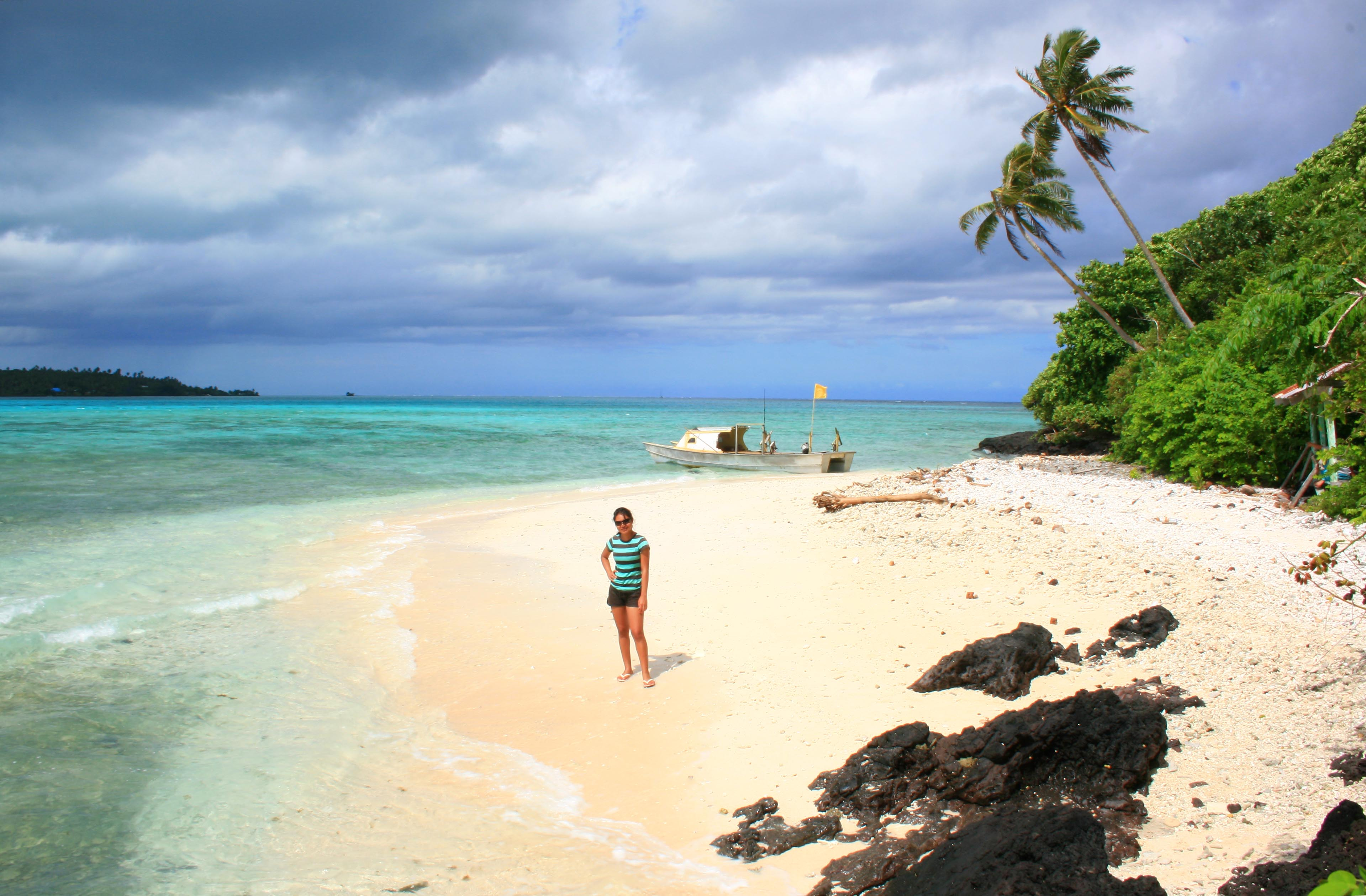 Visitor on beach at Nu'ulopa Island in the Apolima Strait in Samoa.